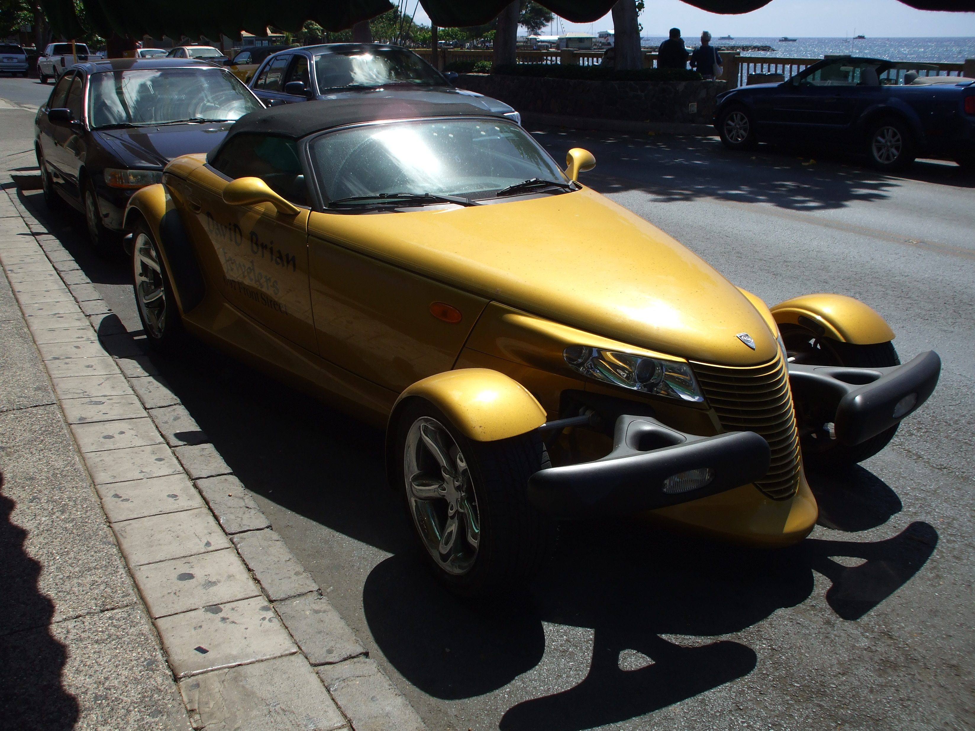 Plymouth Prowler